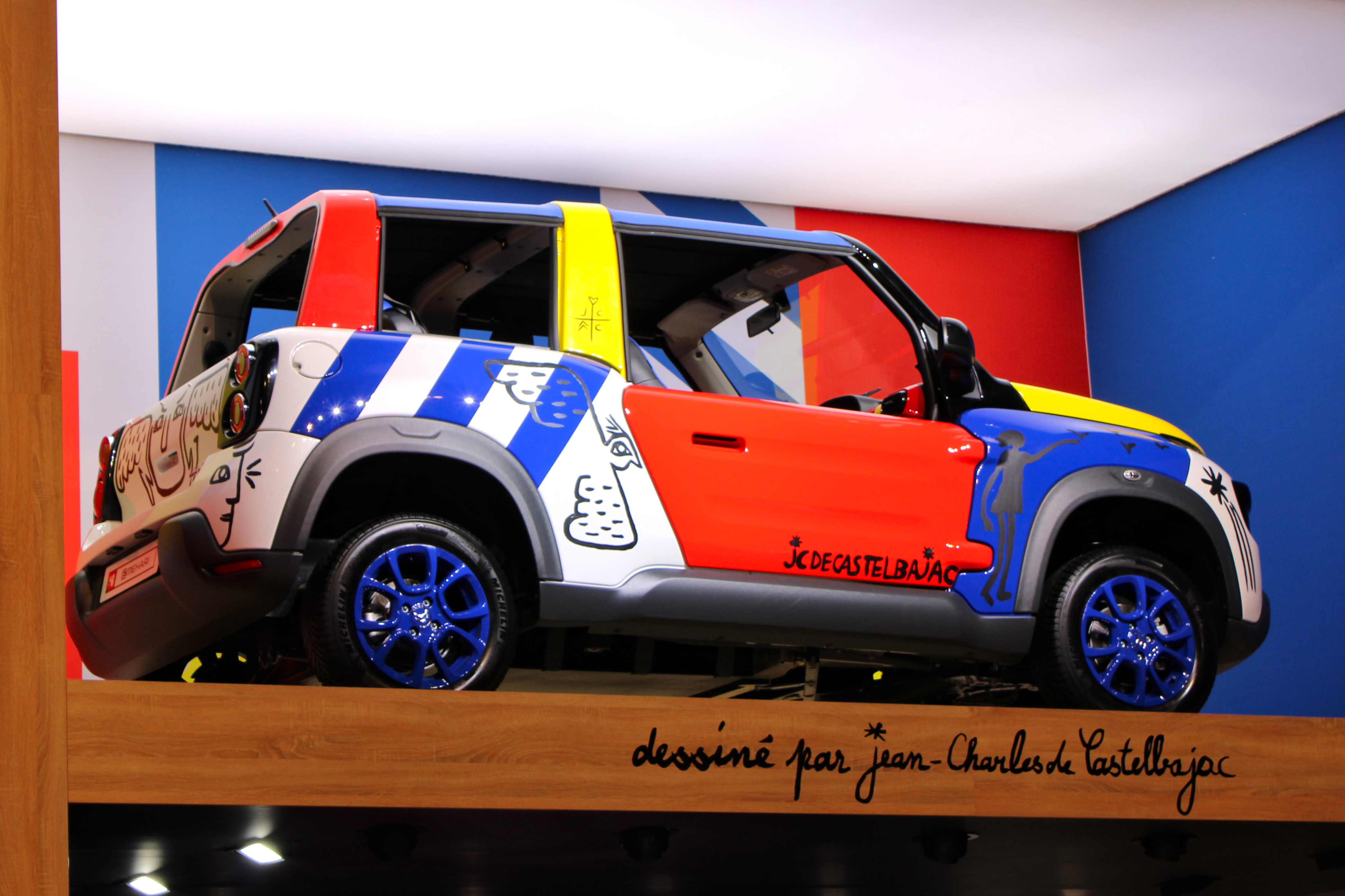 Citroen E-Mehari at Paris Motor Show 2018